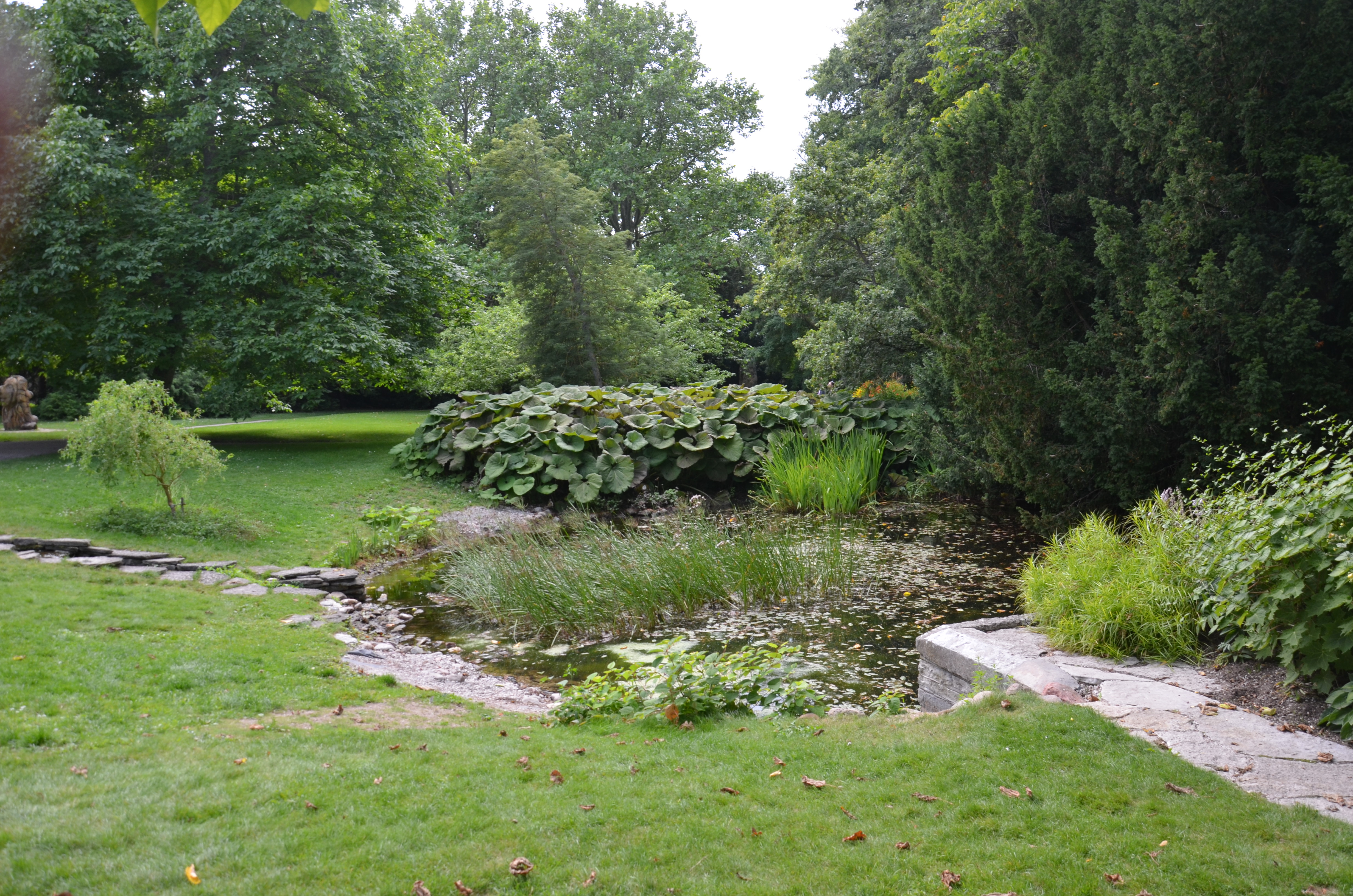 De Badande Wännernas botaniska trädgård i Visby, parti i sydvästra delen